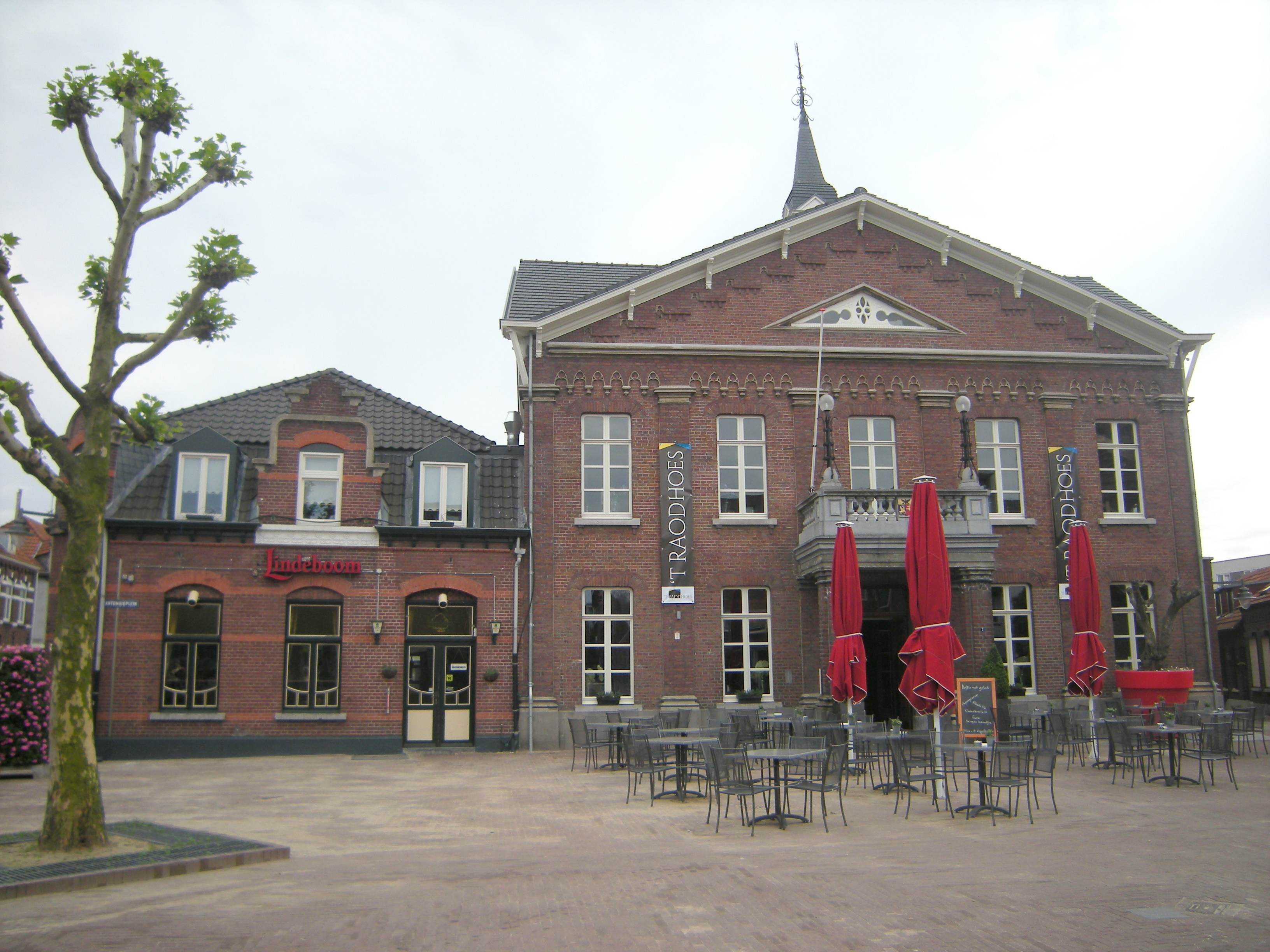 Townhall Blerick